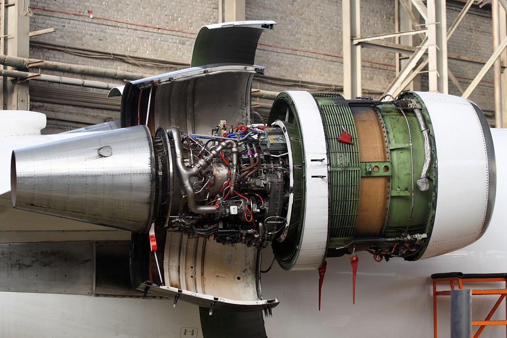 GE CF34-3B1 engines during check inn Sibir Technics hangar. Ex D-ACHB Lufthansa Regional (Lufthansa CityLine).